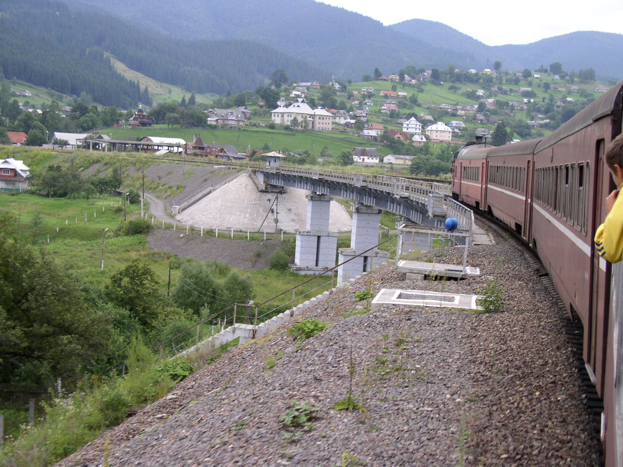 View from Yasinya-Ivano-Frankivsk railroad, Ukraine.